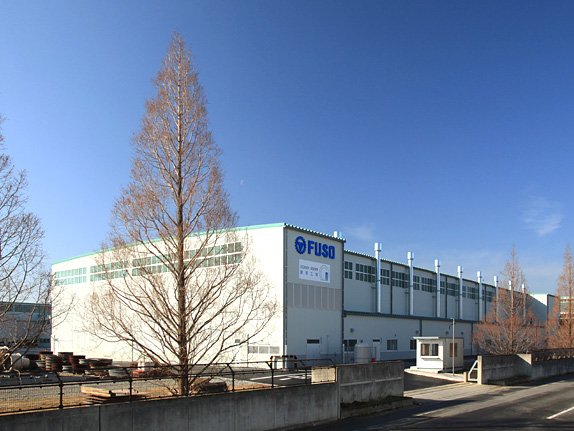 the Appearance